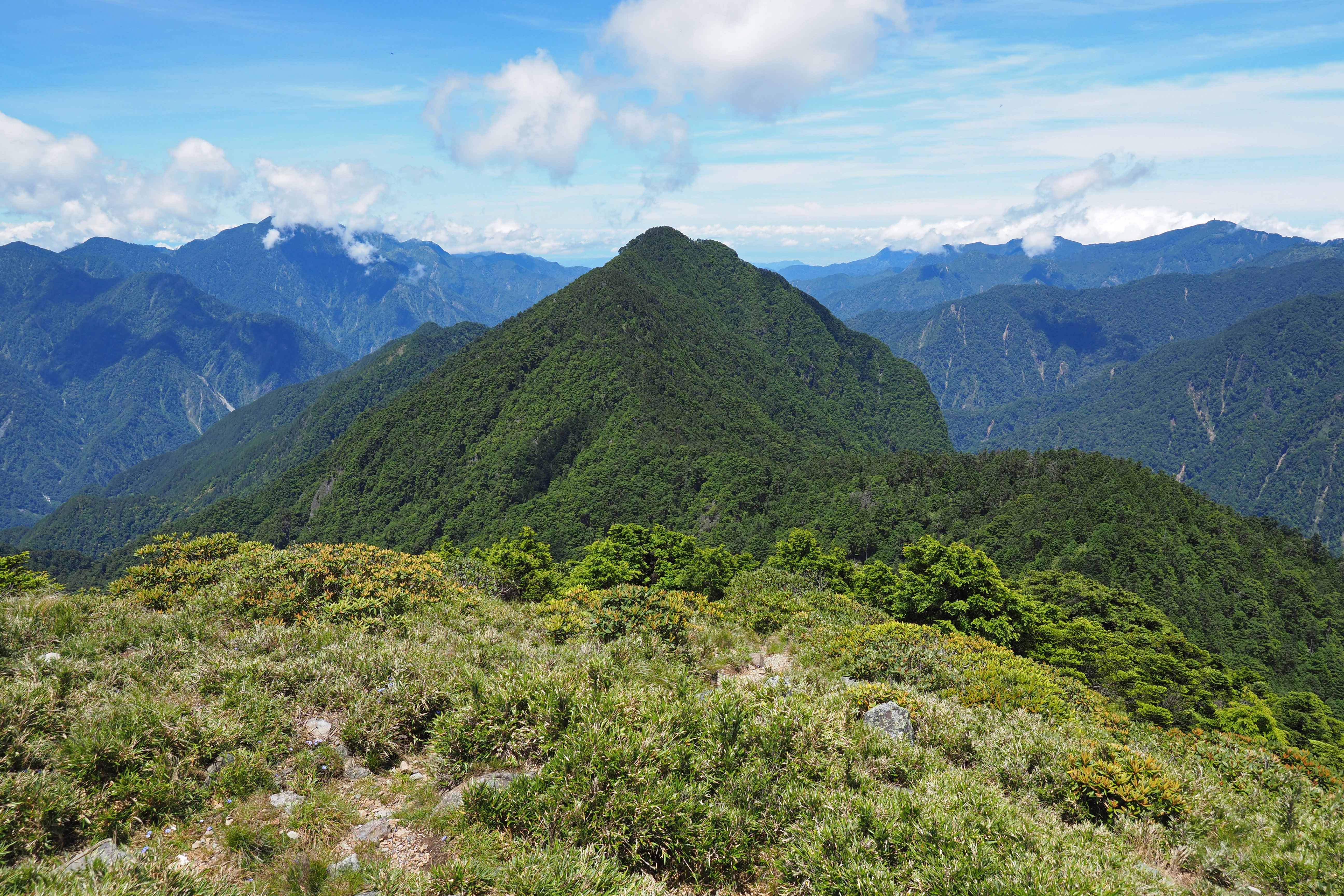 Mt.Jian, 3253m, Xueshan Range, Taiwan 中文（台灣）: 劍山（小劍山），台灣